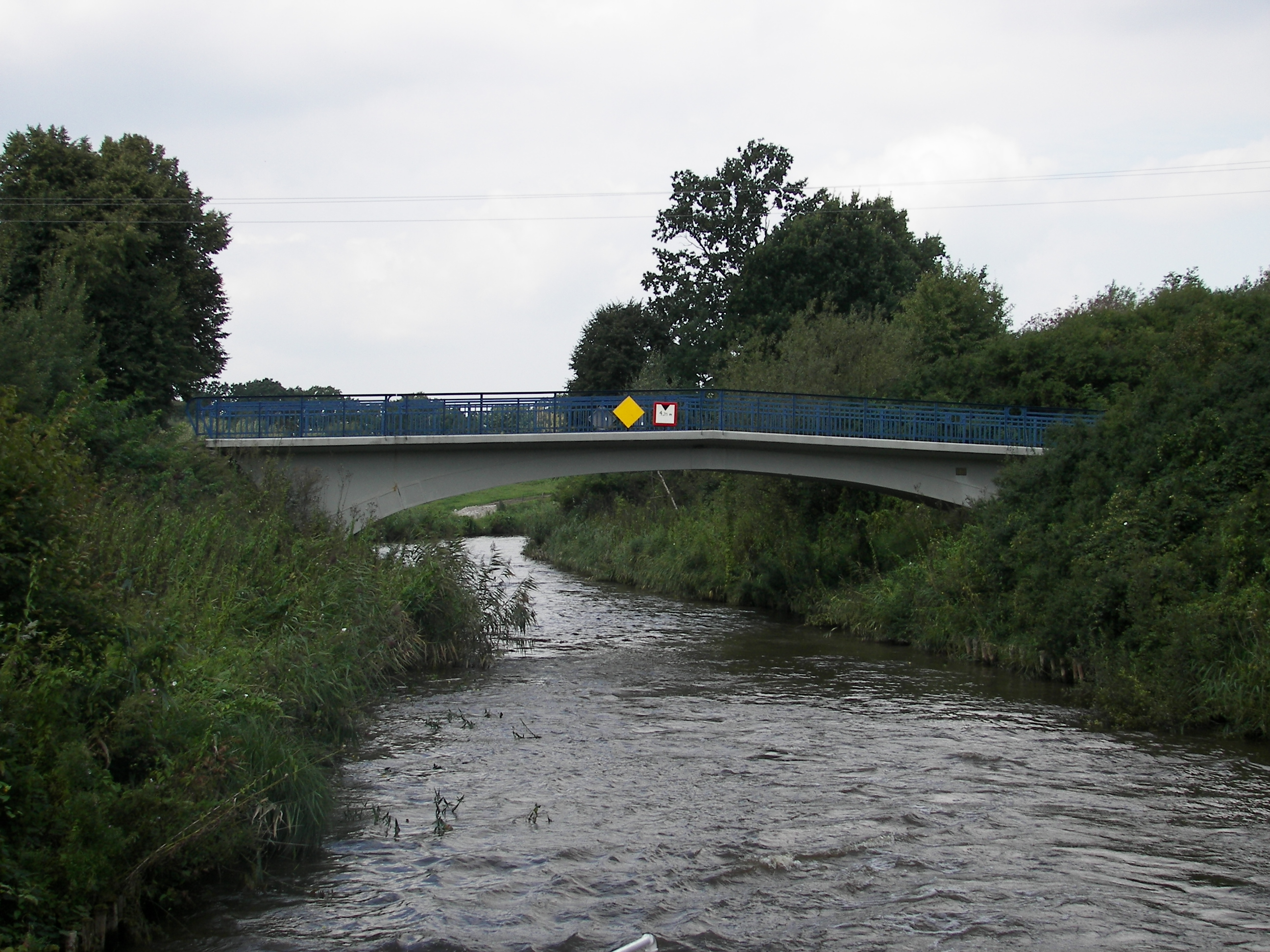 Elbląg Canal, Poland